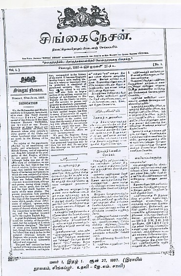 Singai Nesan issue, 1880s